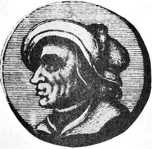 Wilhelm Nesen (1491-1524), German Humanist